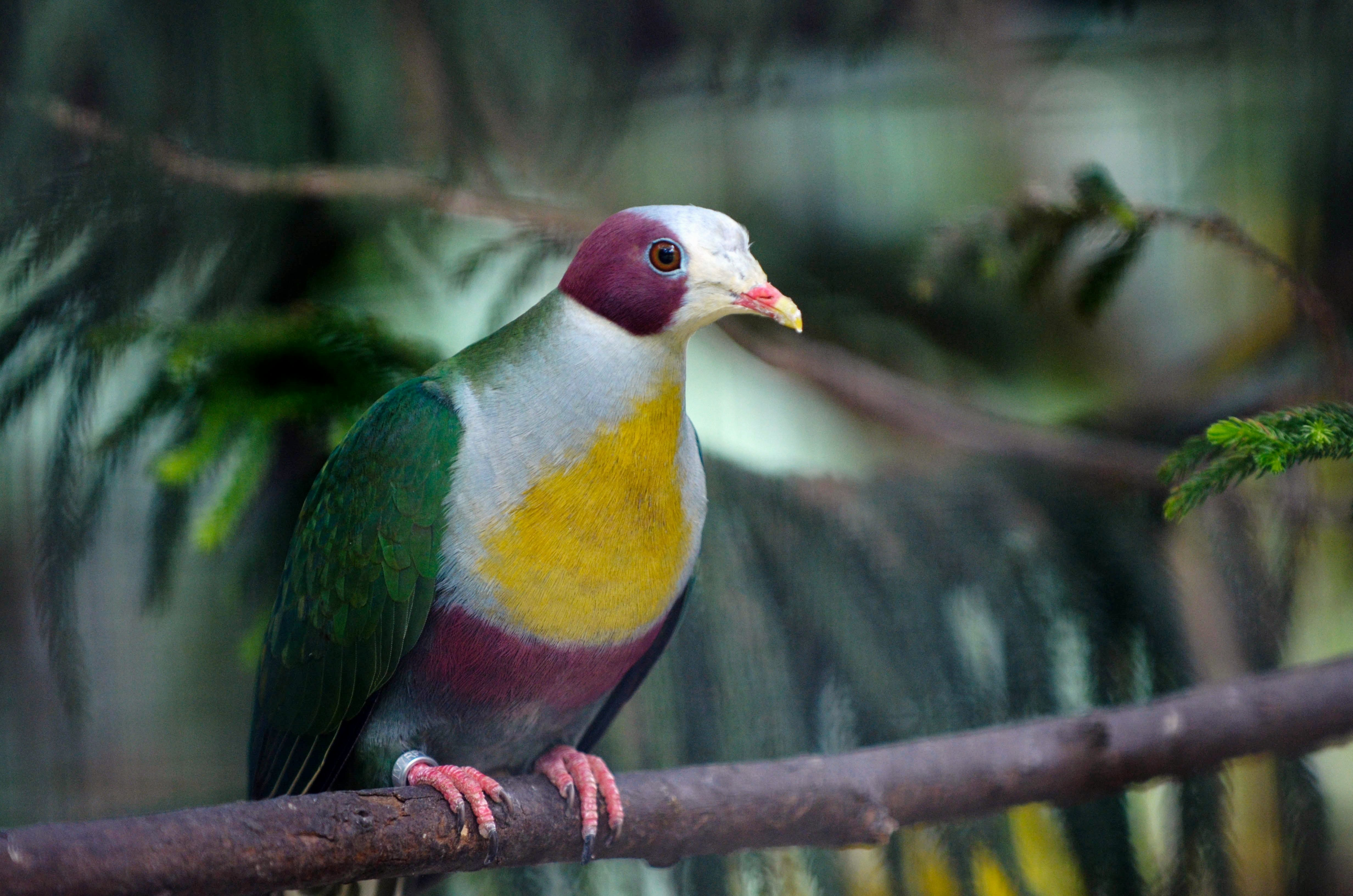 An adult Yellow-breasted Fruit Dove in a zoo.